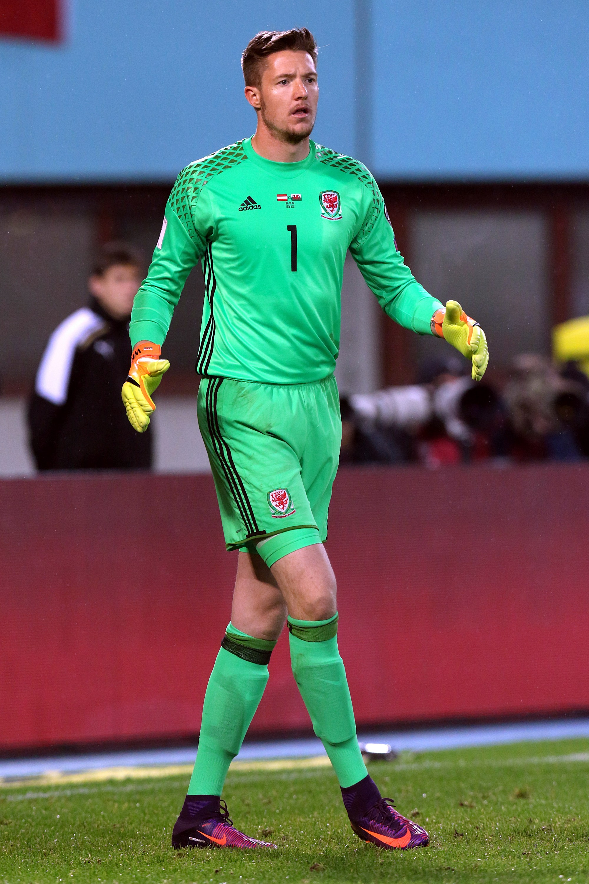 2018 FIFA World Cup qualification – UEFA Group D) – Austria (red shirts) vs. Wales (white shirts) 2-2 (1-2) – 2016-10-06 in Vienna, Ernst-Happel-Stadion – The photo shows goalkeeper Wayne Hennessey (Wales).